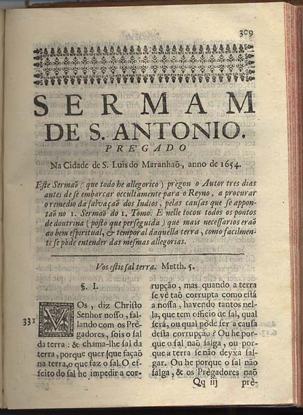 Title page of the first published version of António Vieira's Sermon of Saint Anthony to the Fish (preached in 1654), part of a collection of Vieira's sermons published Lisbon, 1682.